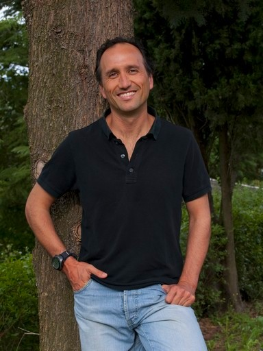 Photo of Francis Tapon taken in Slovenia, Eastern Europe, late August 2010.